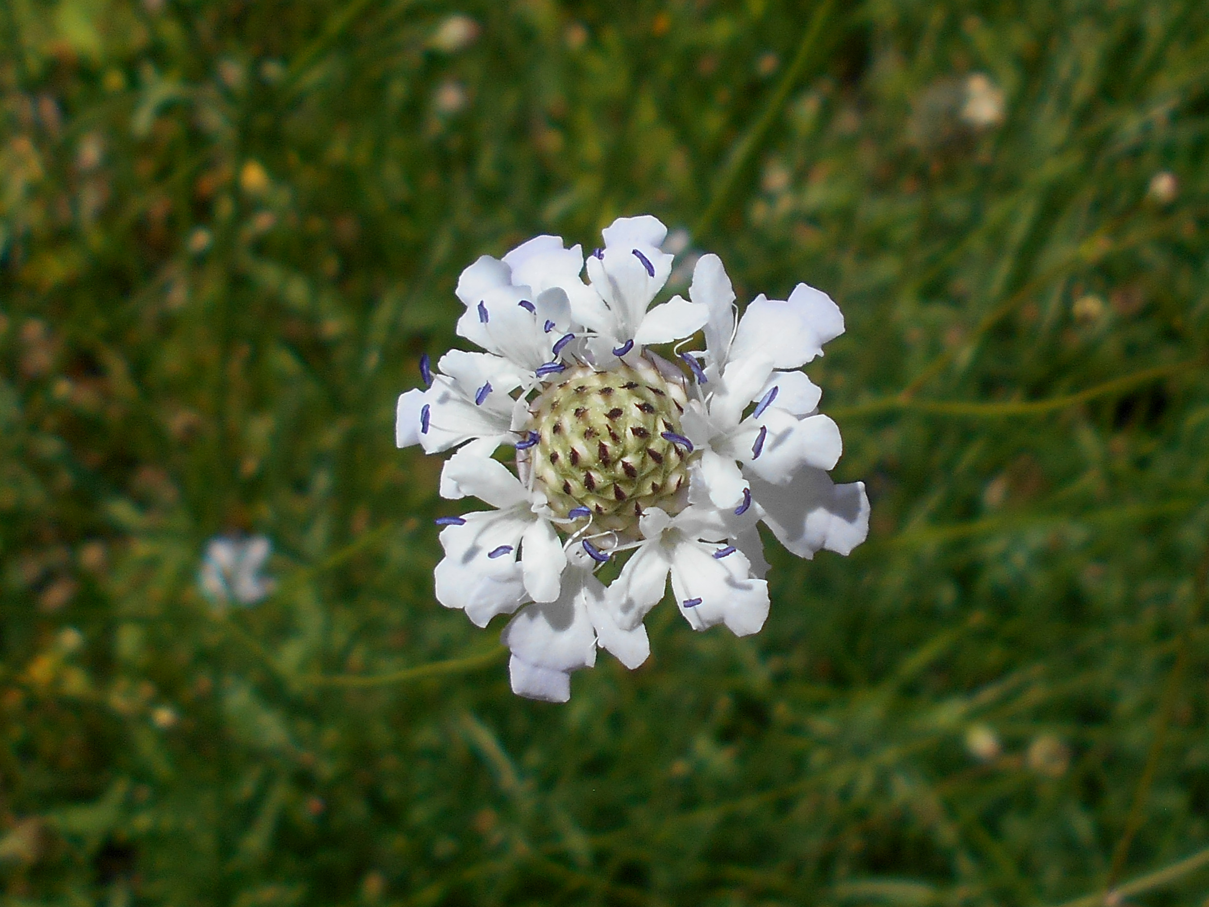 Cephalaria transylvanica, UMCS Botanical Garden in Lublin, Poland.